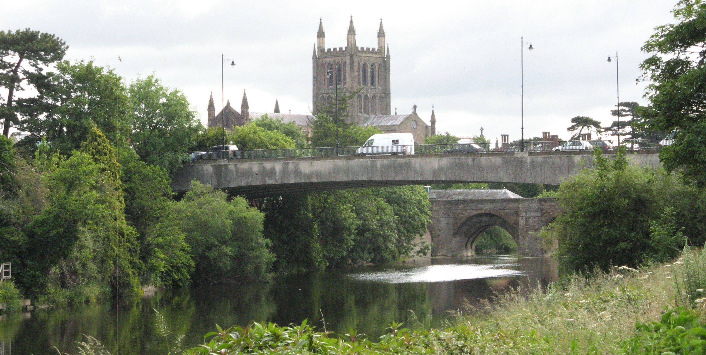 Bridges over the river Wye and Cathedral at Hereford This image was taken from the Geograph project collection. See this photograph's page on the Geograph website for the photographer's contact details. The copyright on this image is owned by Michael Parry and is licensed for reuse under the Creative Commons Attribution-ShareAlike 2.0 license. Attribution: Michael Parry